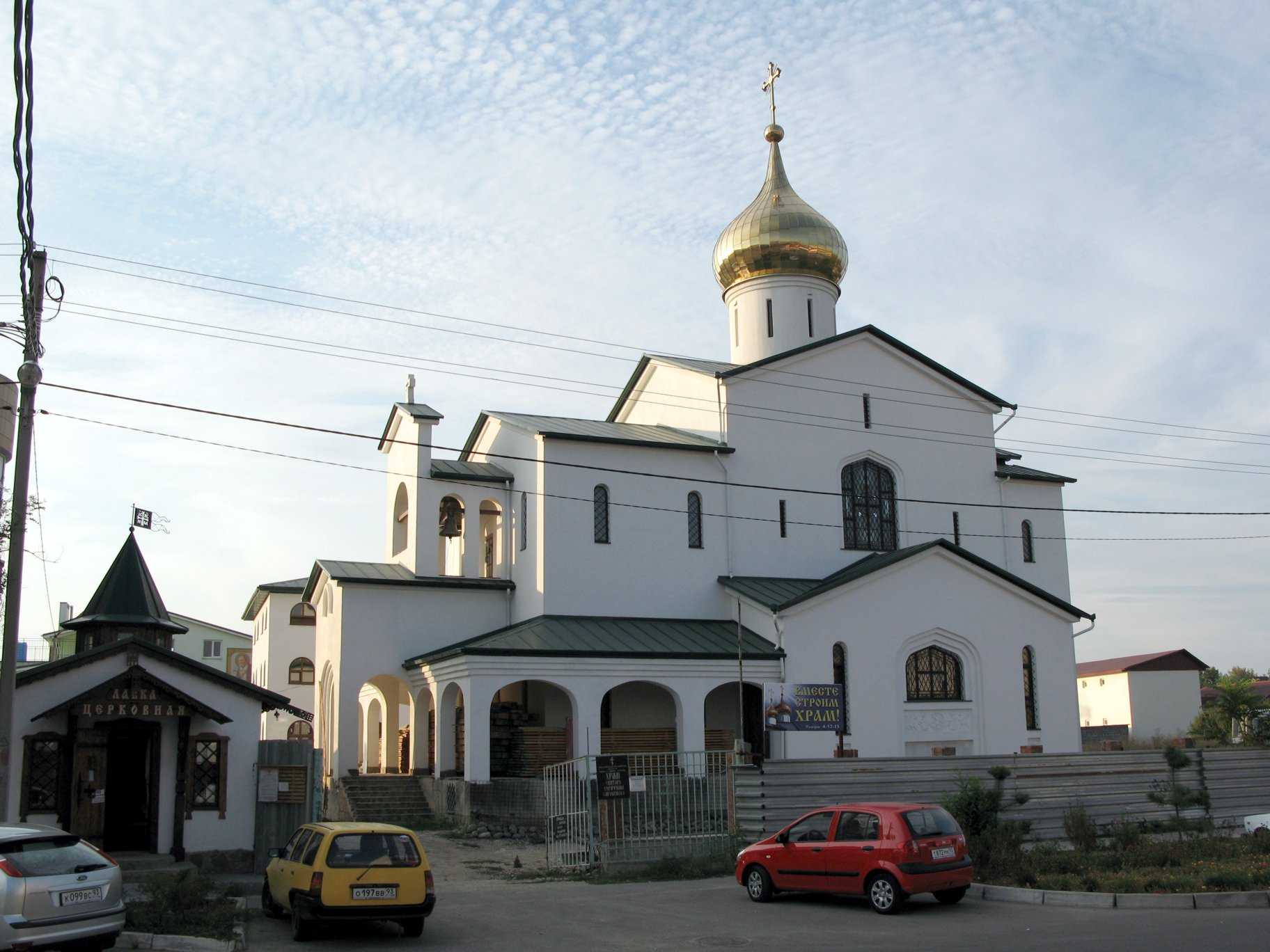 New (being built) St. Seraphim of Sarov Church in Anapa, Russia